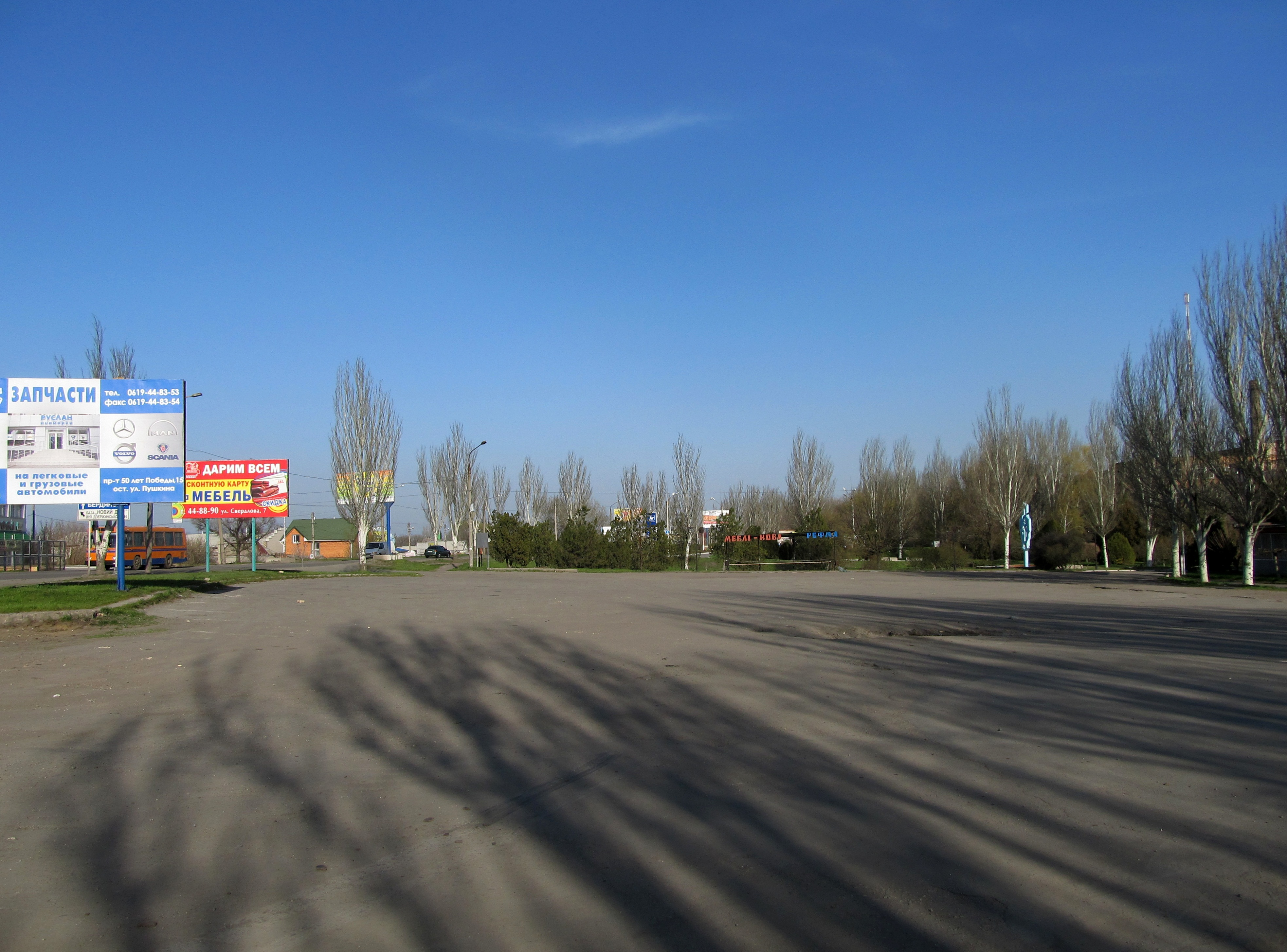 Grishchenko Square (Dzerzhynskogo Street, Melitopol, Zaporizhia Oblast, Ukraine).